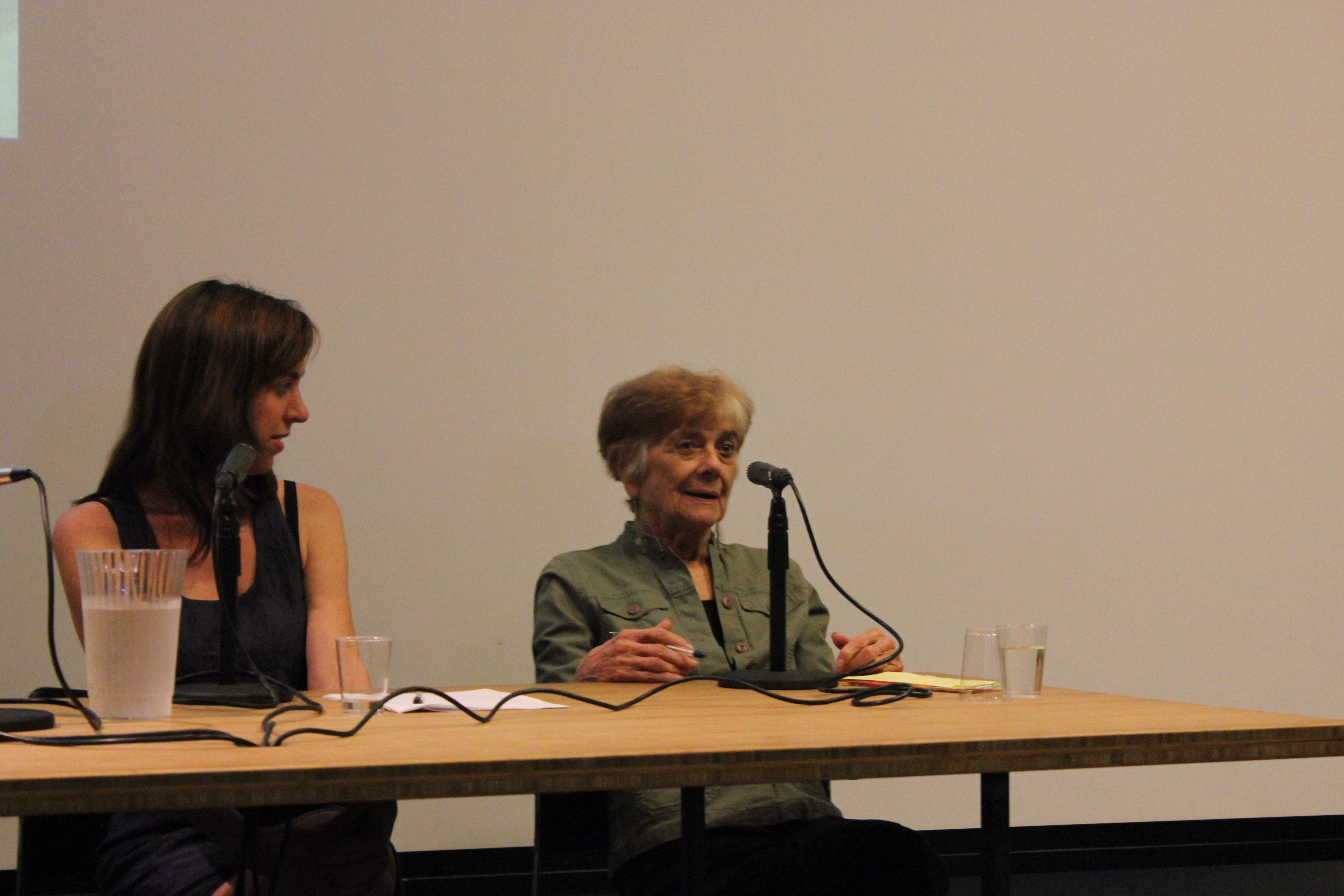 Frances Fox Piven, at conference "Walmart and Its Discontents", at Columbia University, in 2012